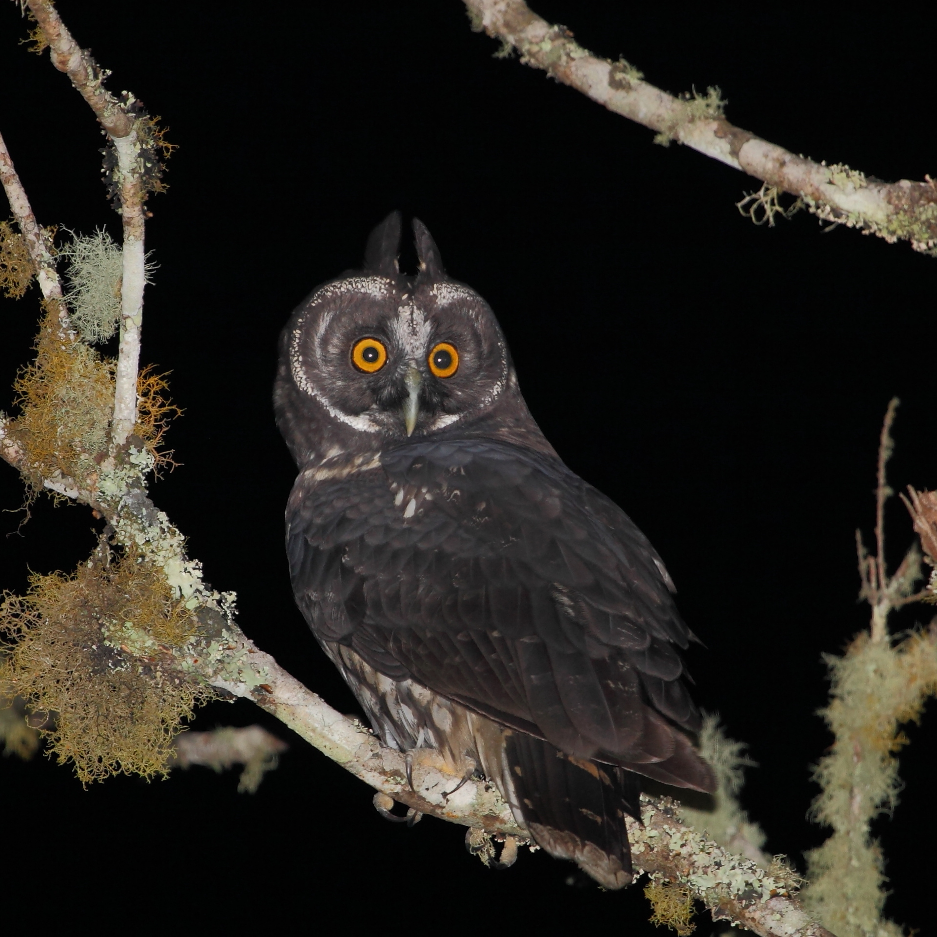 Stygian Owl at Intervales State Park - SP - Brazil